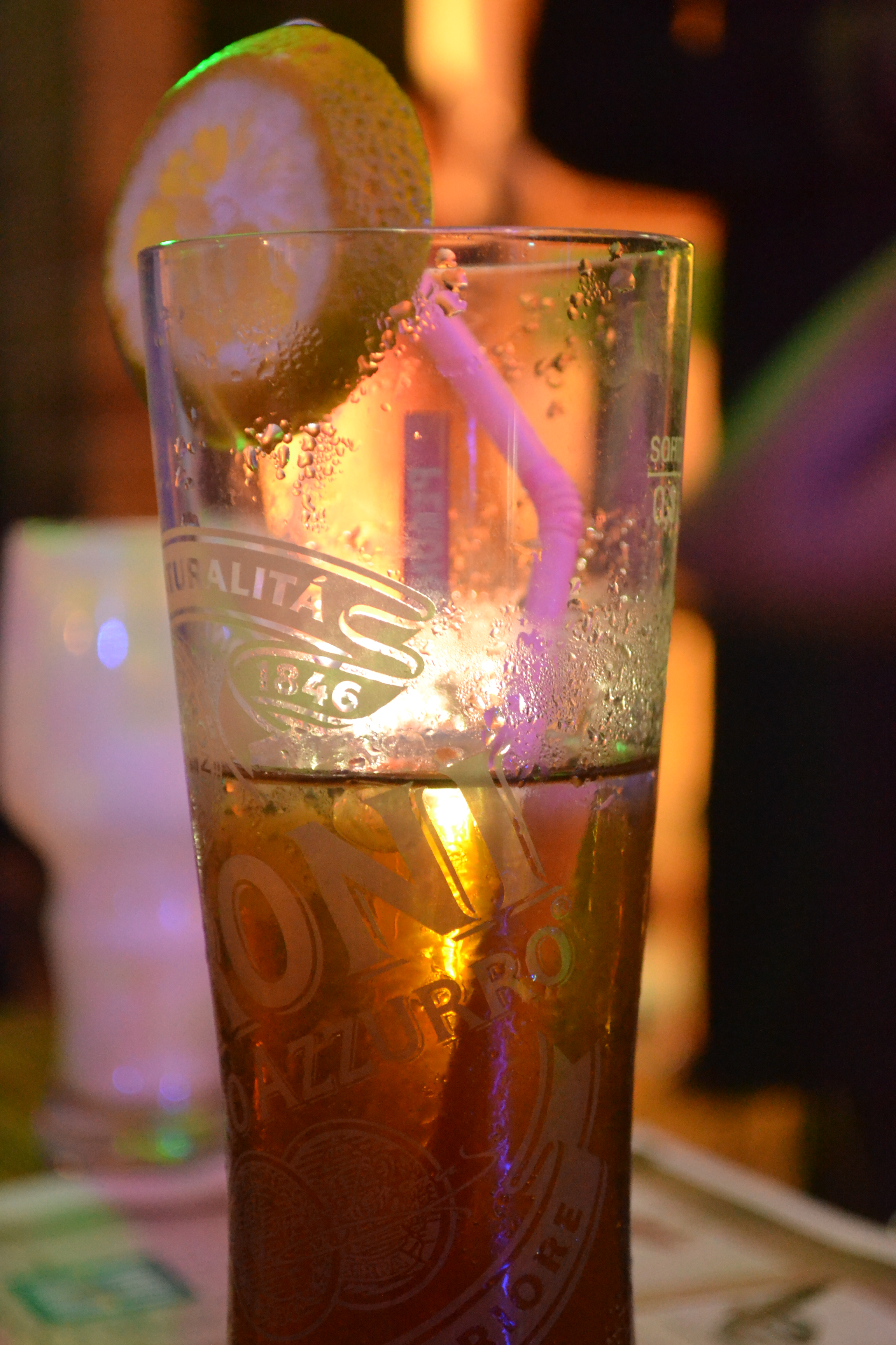 Beverage